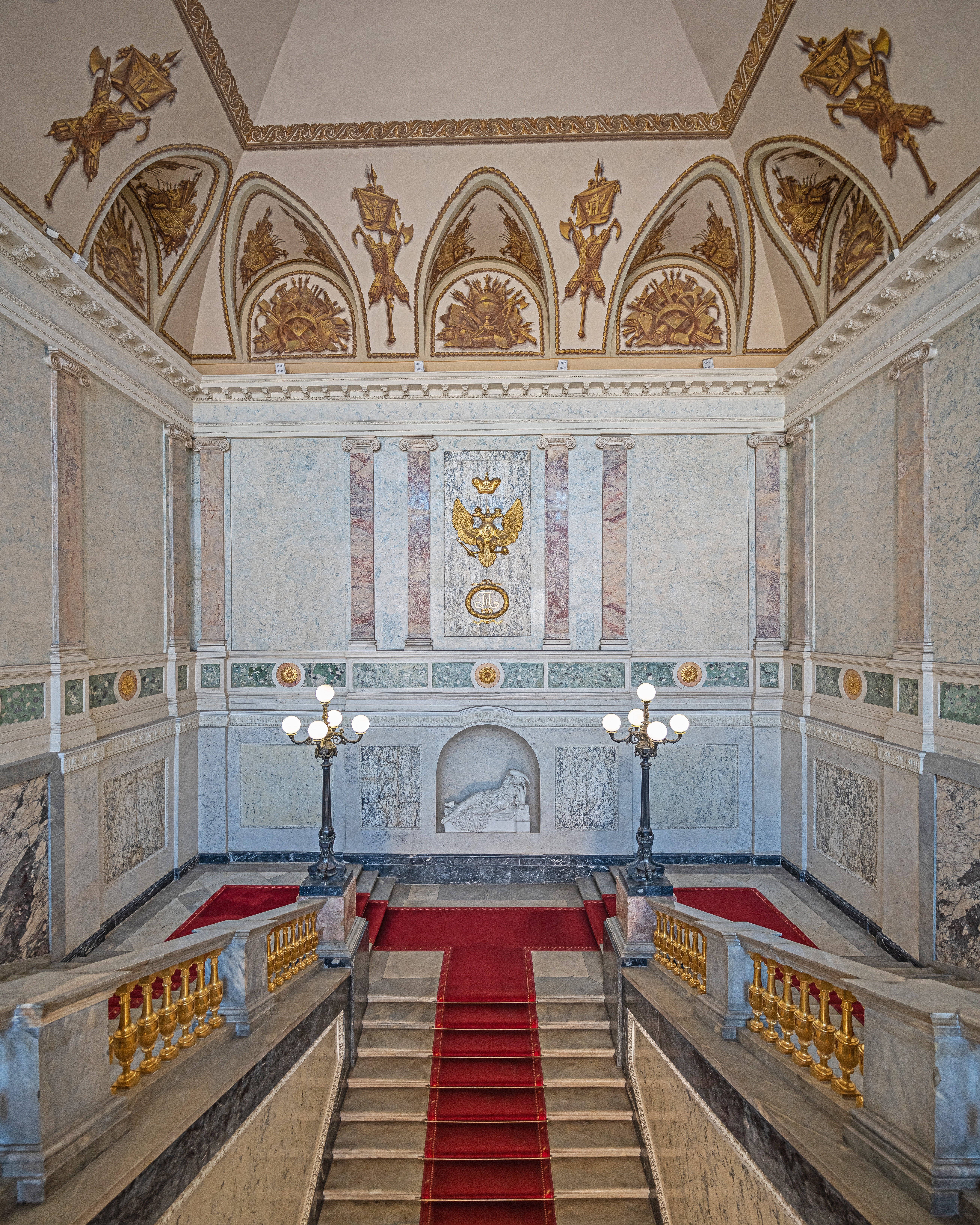 Interiors of St. Michael Castle in Saint Petersburg, Russia